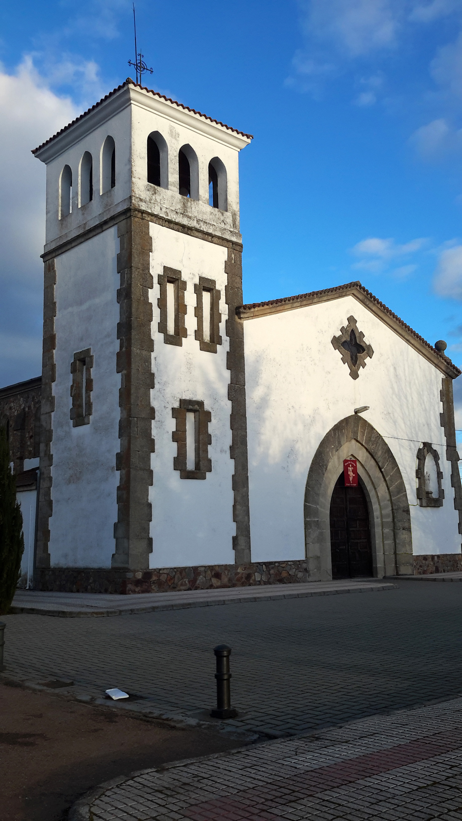 New Church of Sancti-Spíritus. Salamanca, Spain.